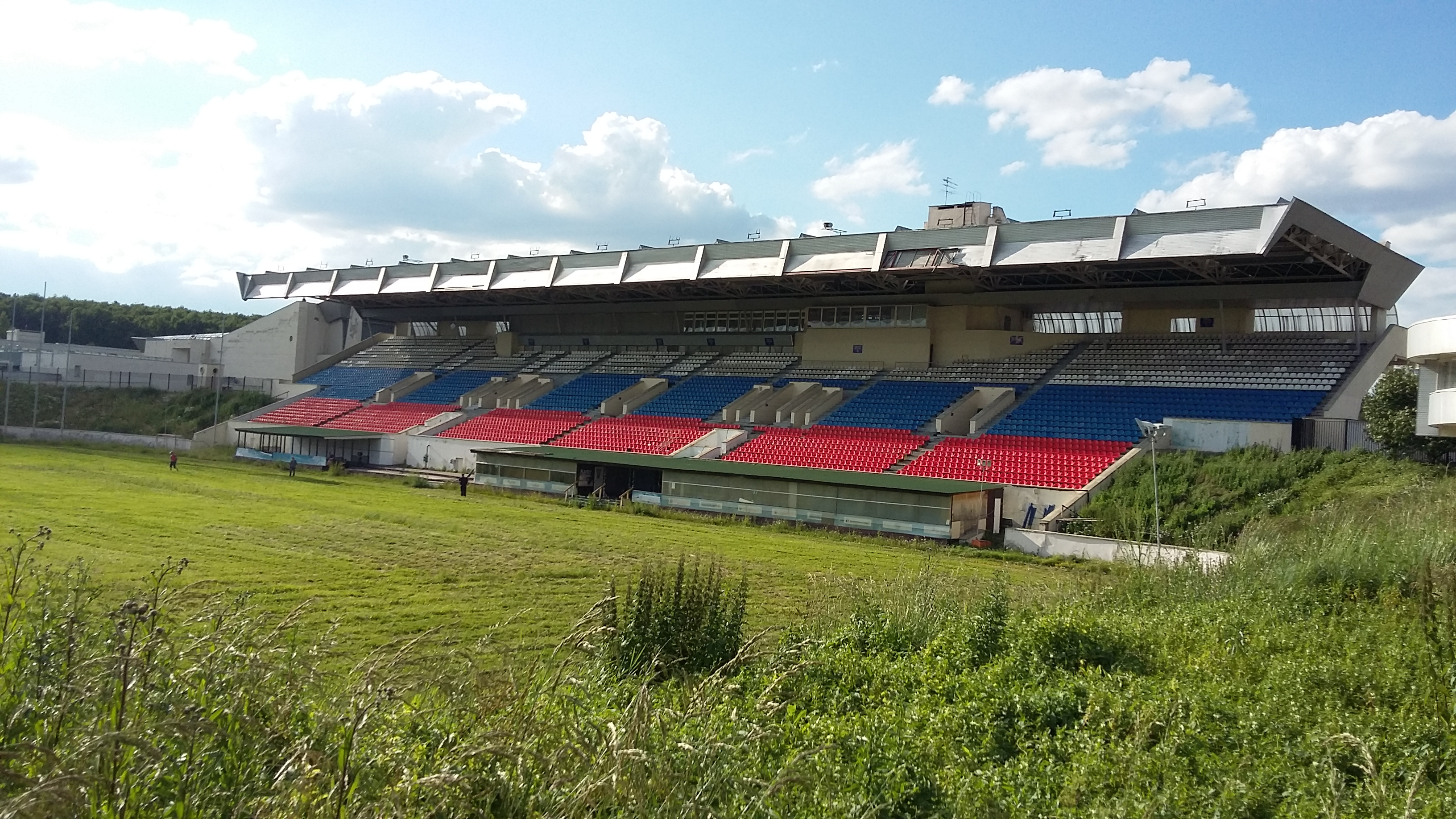 Trade Unions' Equestrian Complex, Show jumping Stadium, July 2017